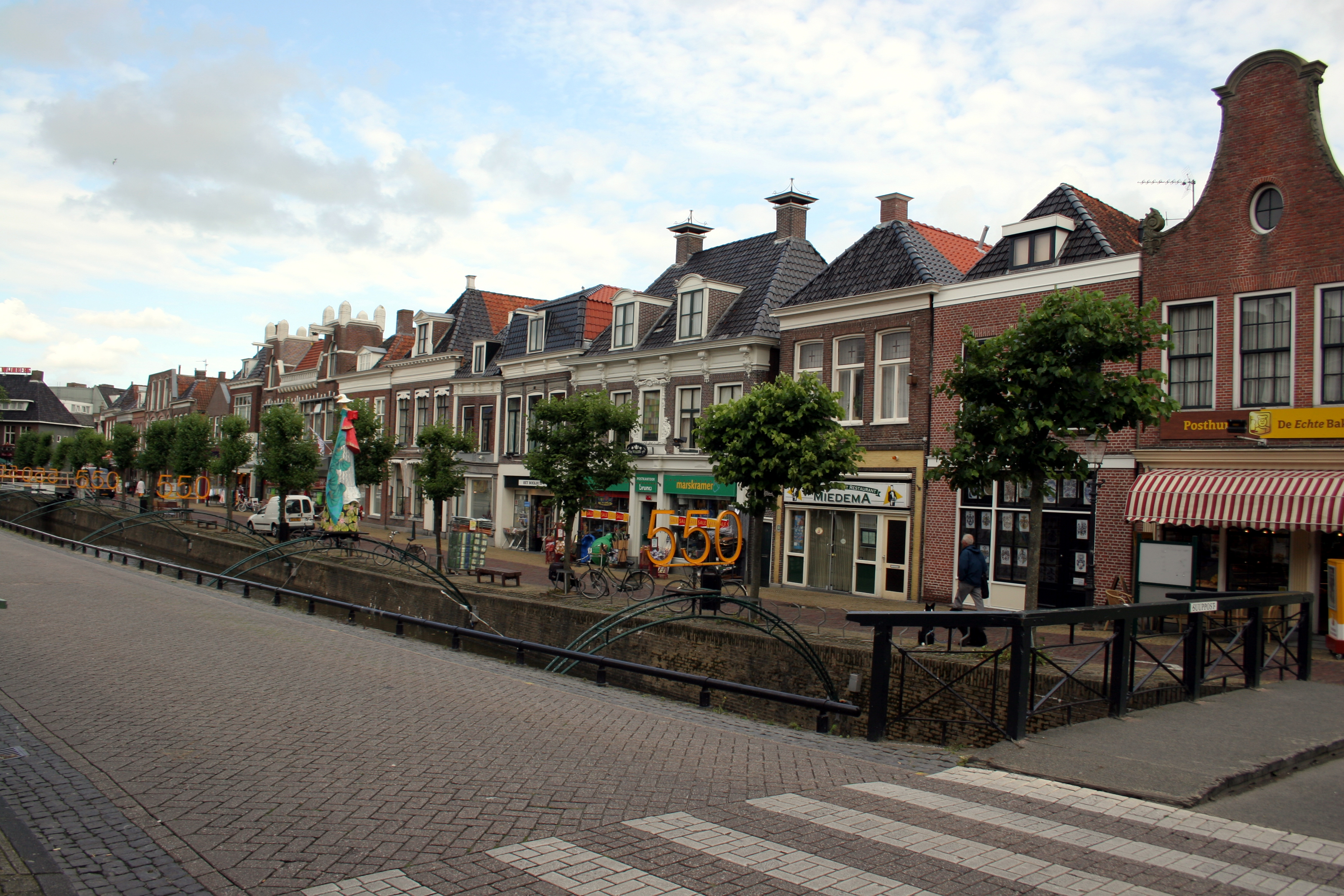 Appelmarkt in Bolsward, Friesland, Netherlands. Bolsward celebrates its 550th anniversary in 2005.